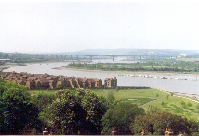 River Medway, Rochester, Kent. Looking upstream along the Medway towards the motorway bridge. Photograph taken from the Castle. The land protruding into the river on the starboard side is Temple Marsh.